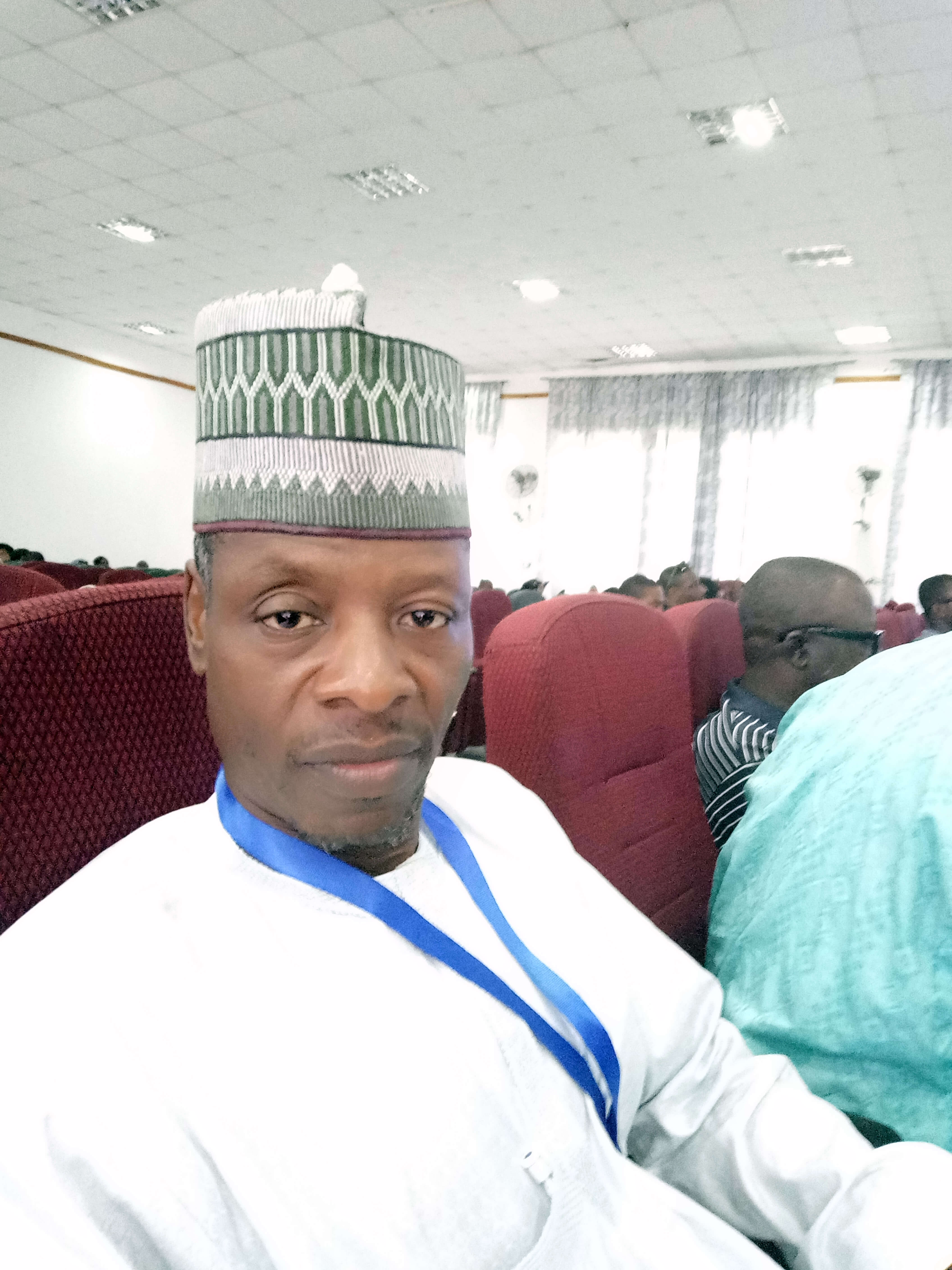 Ado Ahmad Gidan Dabino MON at Minna Book Fair, 2018